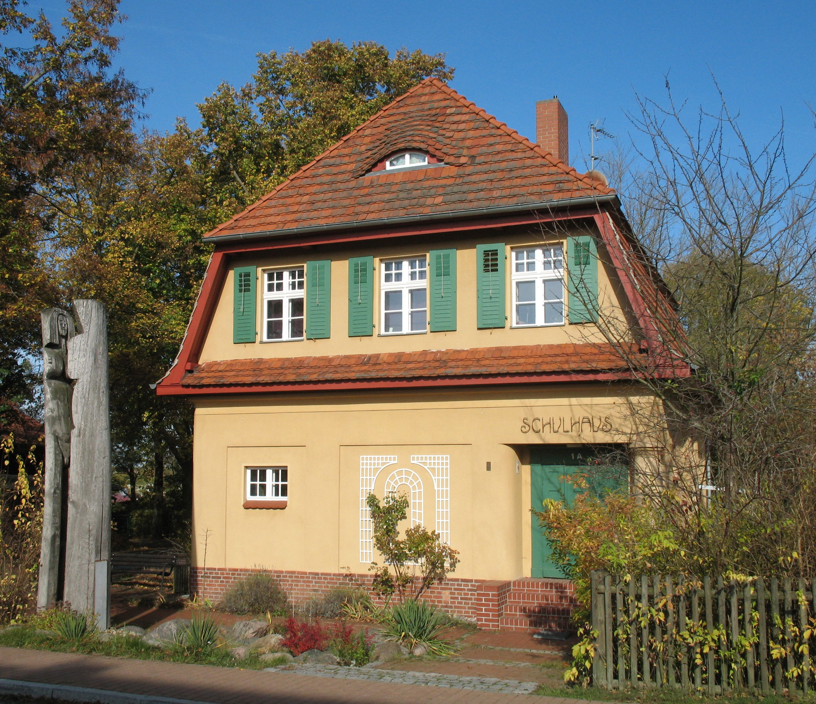 Former school building in Schwielowsee-Ferch in Brandenburg, Germany